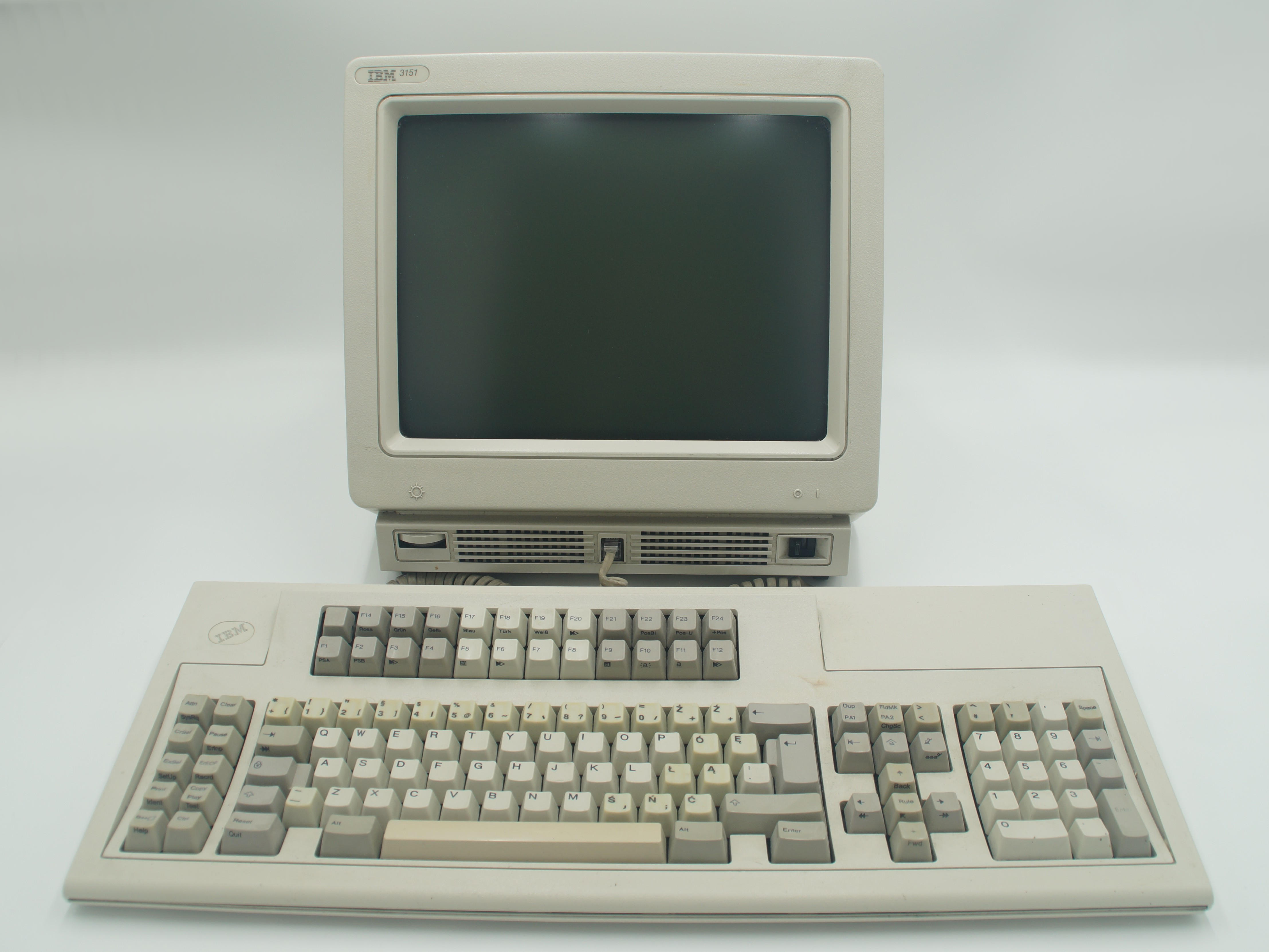 IBM 3151 ASCII Display Station computer terminal